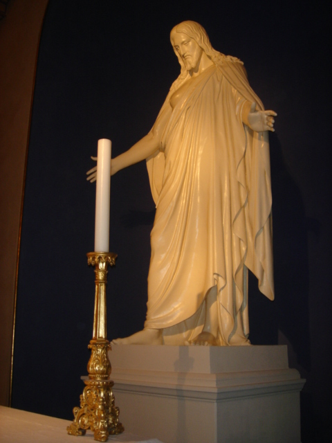 Statue of Christ in St. Petri kirke (St. Petri Church), Stavanger, Norway